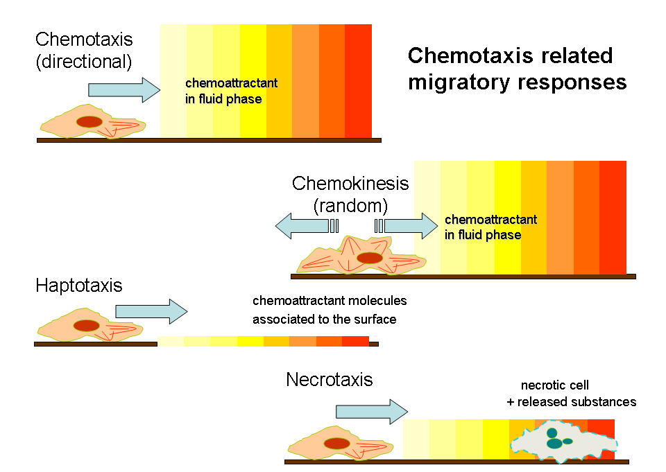 Types of Chemotactic responses